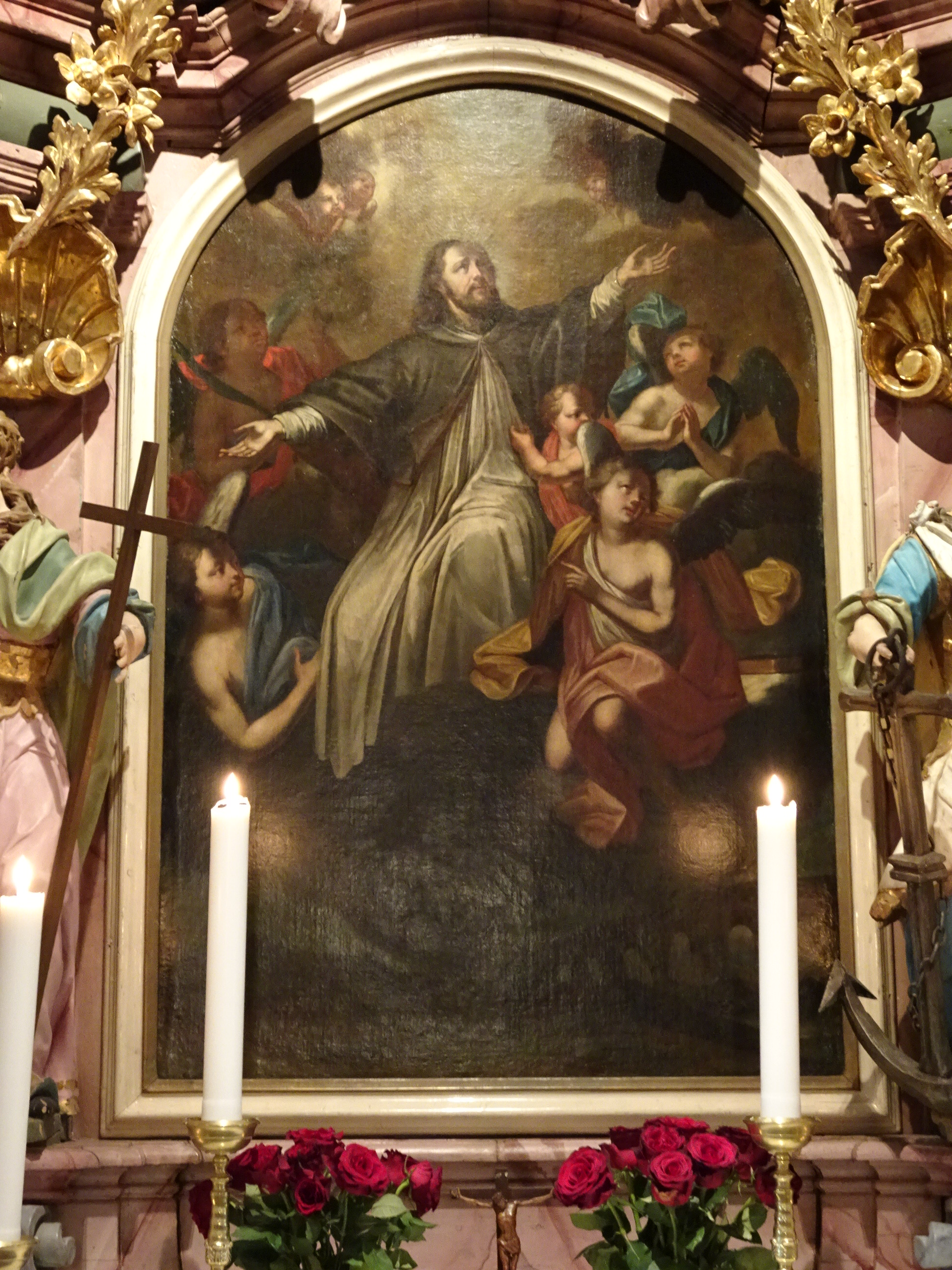 Altarpiece of the martyr John of Nepomuk in the church of Virsbo, Surahammar municipality in Sweden.